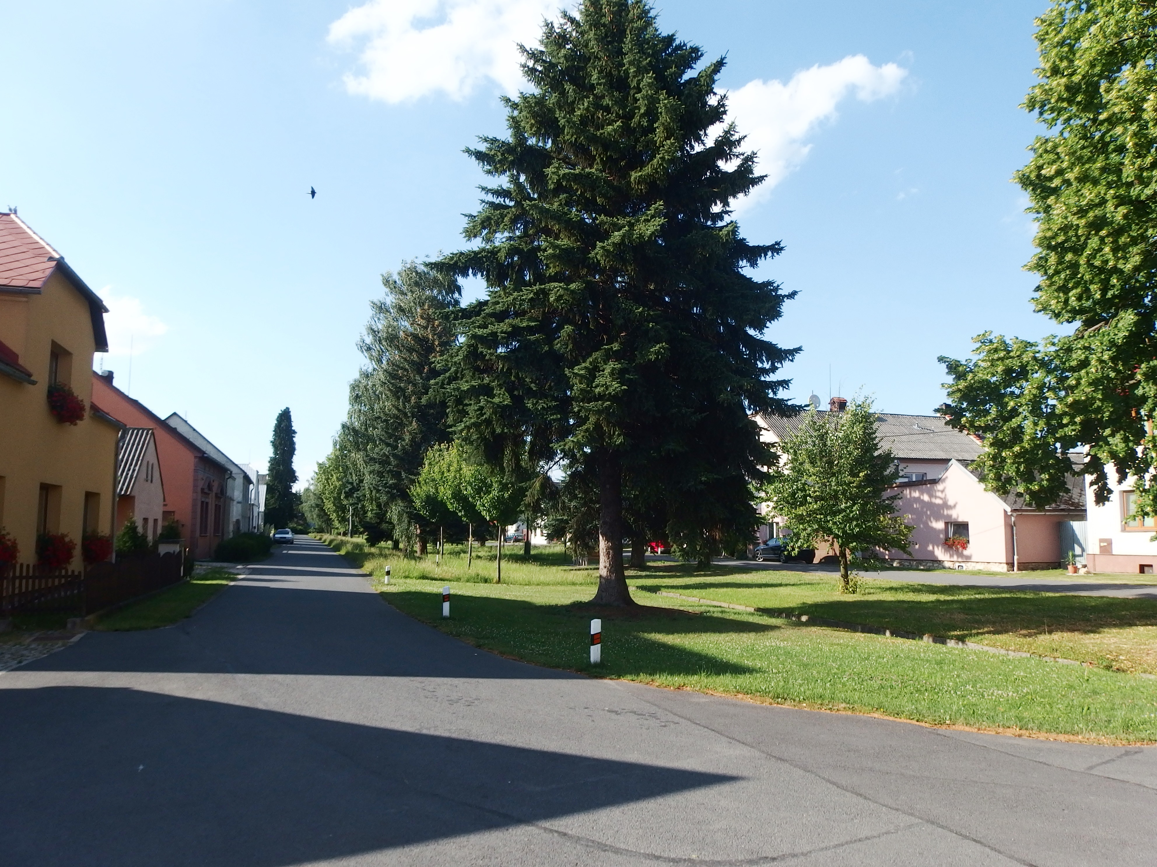 Uničov, Olomouc District, Czechia, part Nová Dědina.